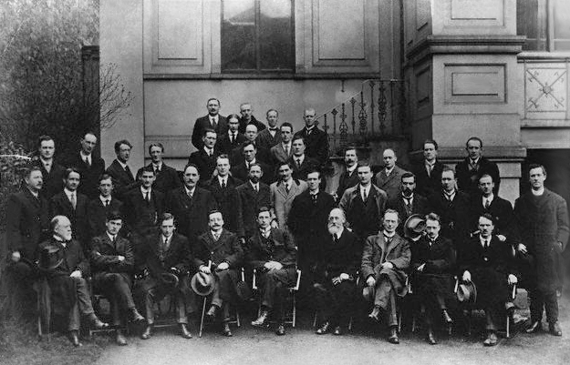 Restored photo of the First Dáil Éireann taken at the Mansion House on 10 April 1919. Pictured are: First row, left to right: Laurence Ginnell, Michael Collins, Cathal Brugha, Arthur Griffith, Éamon de Valera, Count Plunkett, Eoin MacNeill, W. T. Cosgrave, Ernest Blythe.